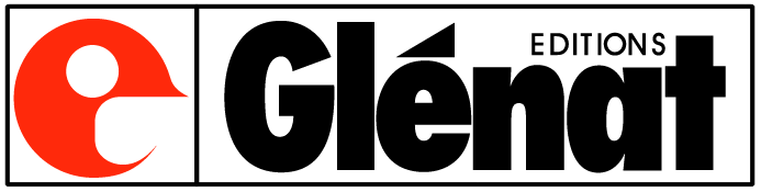 Logo for Éditons Glénat